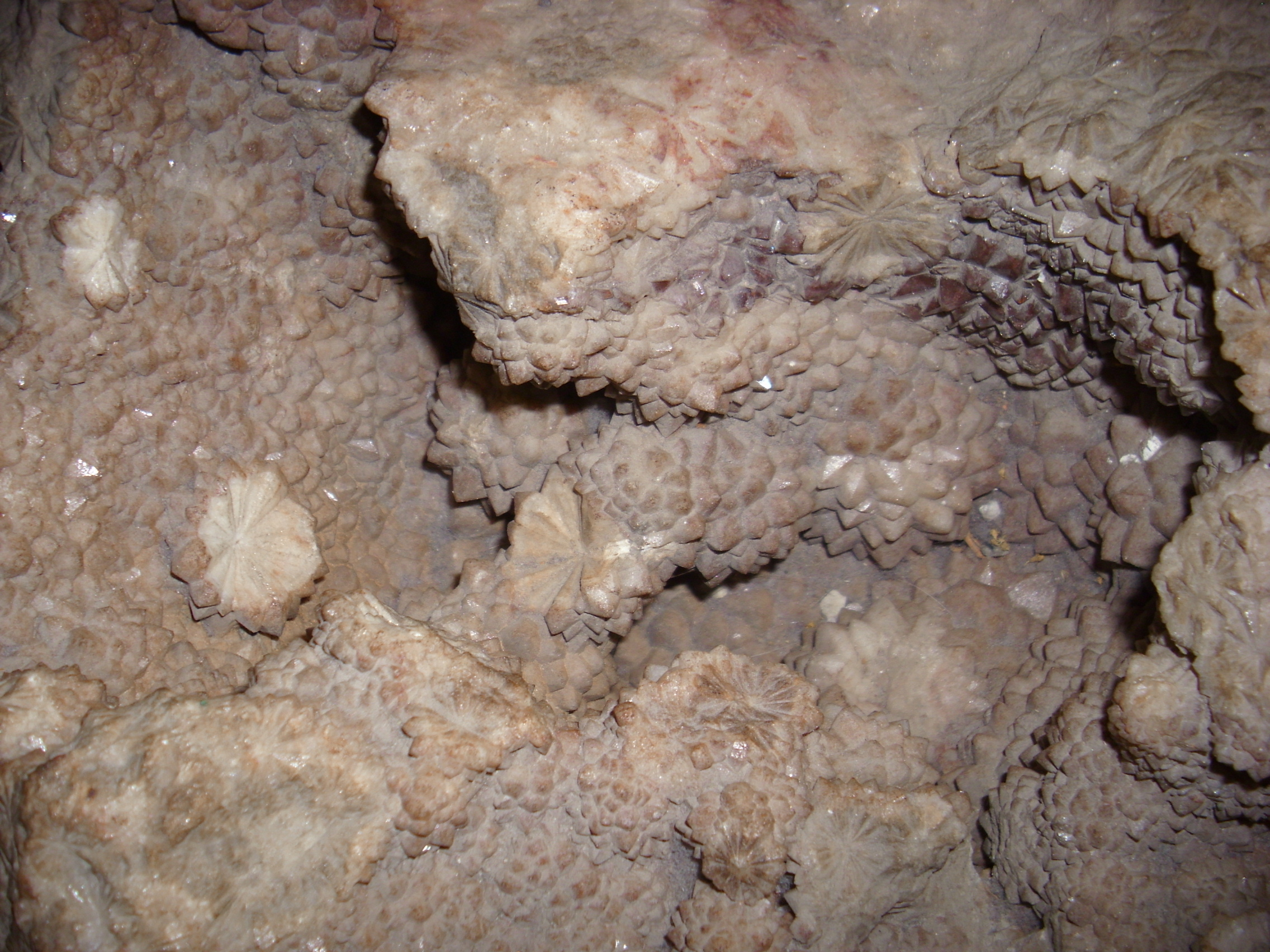 "Star quartz" - unique form of quarz. Found in hill Straznik, by village Perimov (Czech Republic), exhibited in Krkonosske muzeum Jilemnice.